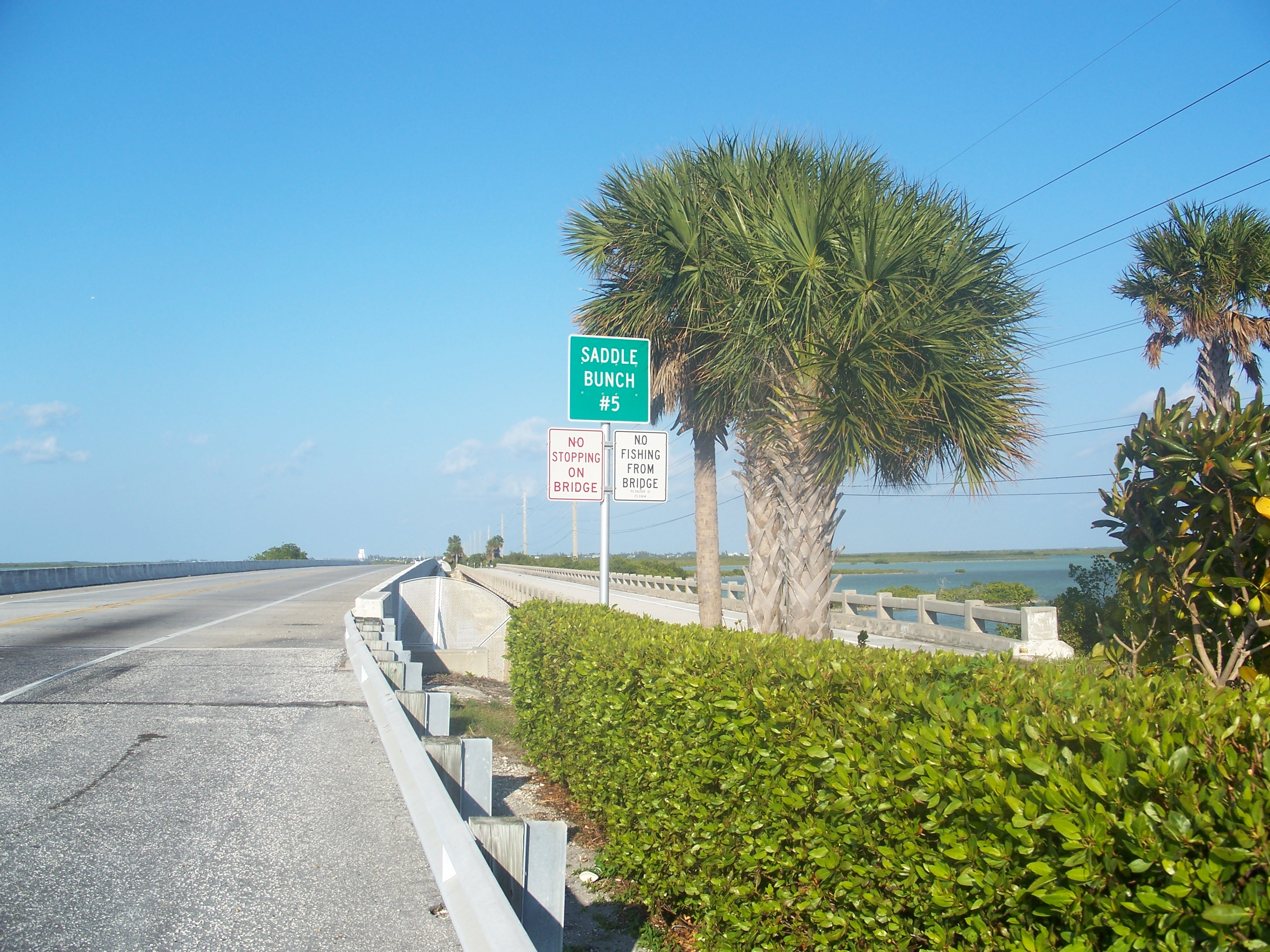 Saddlebunch Keys, Florida: Overseas Highway